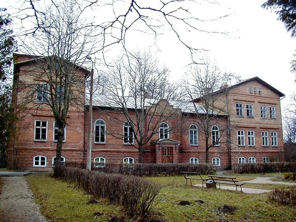 Würken manor